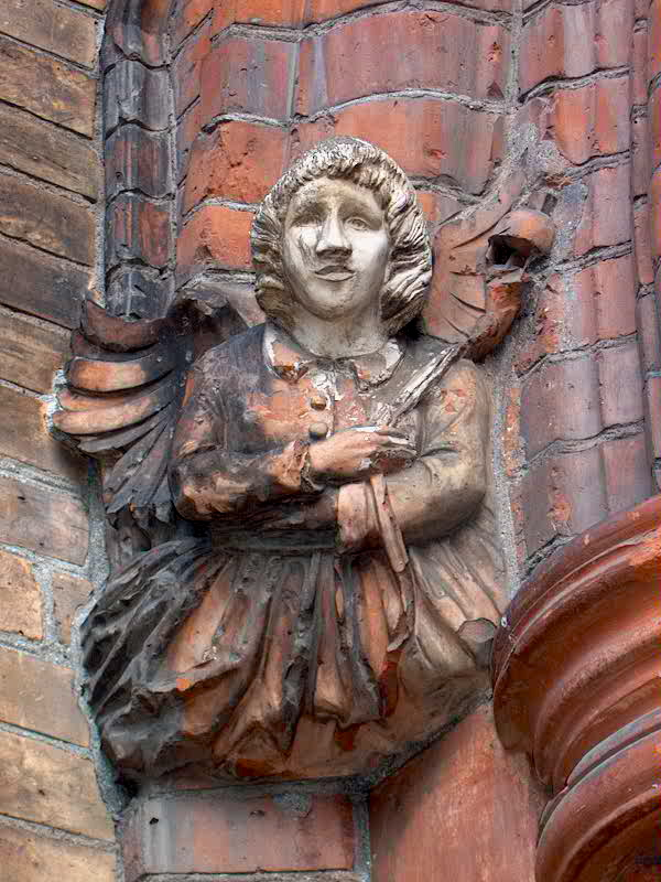 Angel at St. Andrew's Anglican Church in Moscow. Angel holds a thistle symbolizing Scotland. This is my original photo, but I copied it from English Wikipedia (same name file) and increased the color saturation just slightly. How do I get rid or the Wikipedia version and have this the only version (on Commons)?